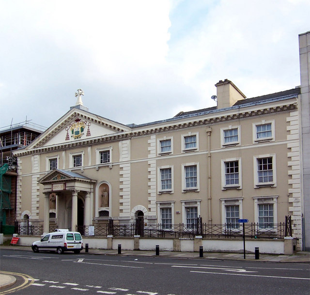 Roman Catholic church of St Charles Borromeo, Jarratt Street, Kingston upon Hull, East Riding of Yorkshire, England, seen from the northwest.Roman Catholic church of St. Charles Borromeo, Jarratt Street, 1828-9 by John Earle Junior. St. Charles Borromeo seems to have had a fast-track career in the Papal service. Born 1538, cleric in 1547 (age 11), Cardinal in 1560 (age 22). Due to his enforcement of strict ecclesiastical discipline, some disgruntled monks in the Order of the Humiliati hired a lay brother to murder him on the evening of 26 October 1569; he was shot at, but was not hit. He died in 1584.